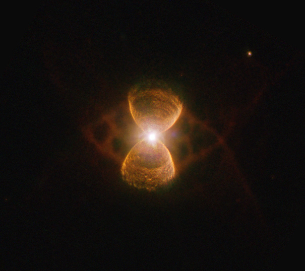 You think you know someone and then you look at them in infrared and then wonder what else they aren't showing you. Seriously, I have seen this picture of the same object at least a dozen times in the past so I didn't expect anything out of the ordinary when I looked at the data in the archive. But there are a whole bunch of infrared observations where these weird, geometric arcs or ovals show up! Fascinating. Note they are a bit blurry as data from NICMOS tends to be. Sometimes I wonder if all the processing I do to its data is right or not but there really are some interesting things there even though it's so messy. Upon further inspection of the nebula I get a good sense of its dimensionality and to me it appears that we are looking down at an hourglass from a 45° angle or so. I think this is why processing is so addictive. I stare at things for a long time and come away with a much better understanding than I previously had and maybe even some extra information that wasn't in a press release at some point. Oh, I got rid of the large, distracting diffraction spikes as best I could while doing the least harm to the object that I could manage. Red: HST_11331_03_NIC_NIC3_F160W_sci + hst_11093_01_wfpc2_f675w_pc_sci + hst_11093_01_wfpc2_f658n_pc_sci Green: hst_11093_01_wfpc2_f656n_pc_sci + hst_11093_01_wfpc2_f555w_pc_sci Blue: hst_11093_01_wfpc2_f502n_pc_sci + hst_06353_08_wfpc2_f487n_pc_sci North is up.